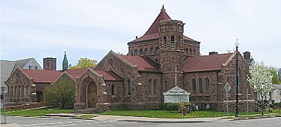 Pullman Memorial Universalist Church, Albion, New York (2011)